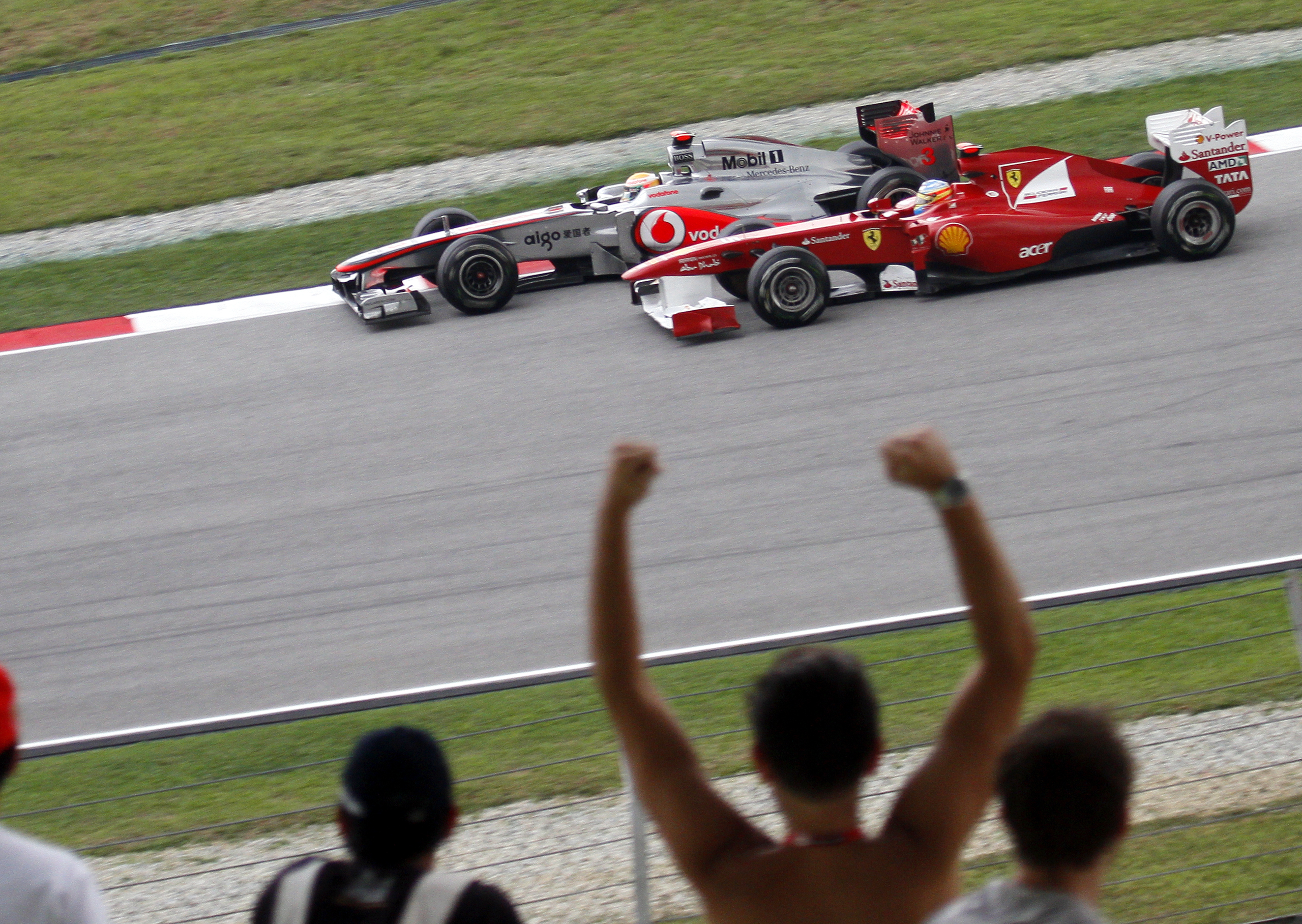 Formula One 2011 Rd.2 Malaysian GP: Fernando Alonso (Ferrari) and Lewis Hamilton (McLaren) during the race.